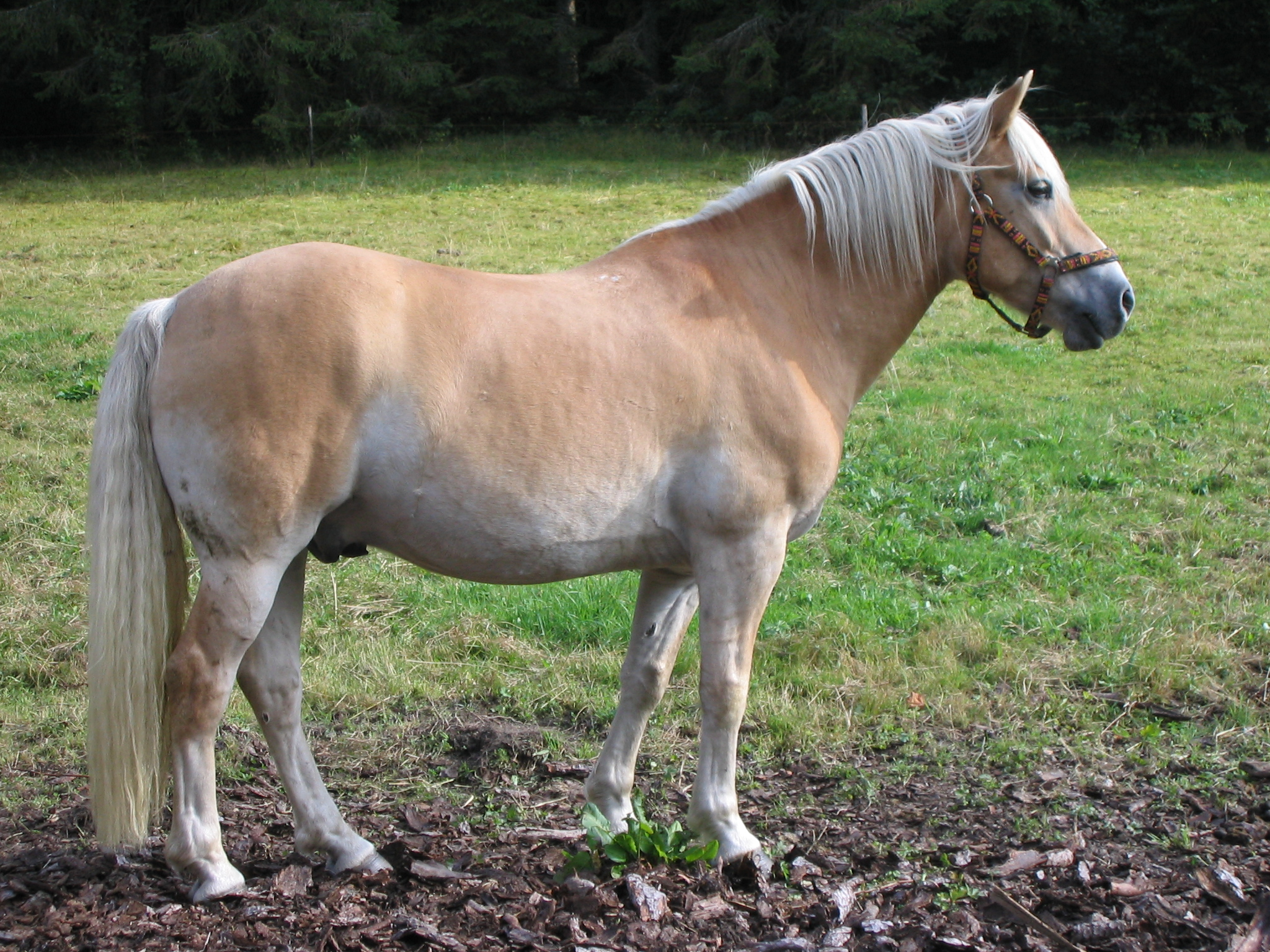 Haflinger in the Black Forest